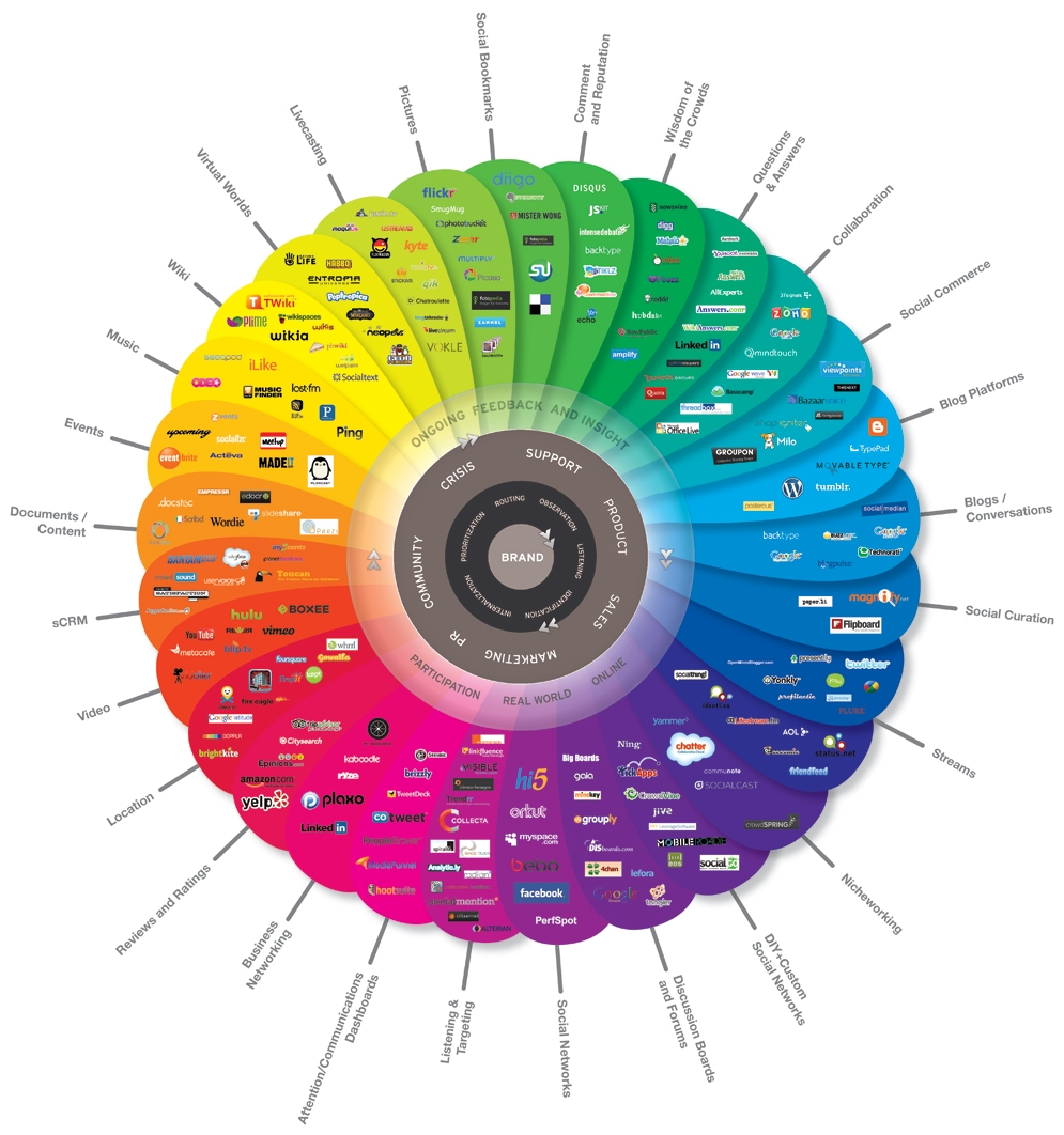 The Conversation Prism 2.0; Diagram depicting the many different types of social media